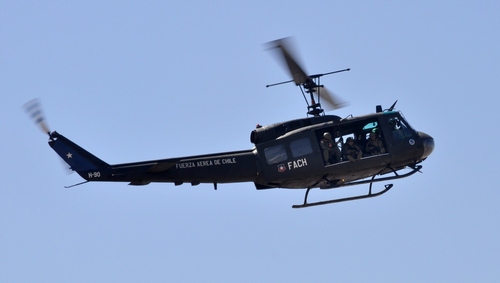 Pudahuel AFB, Santiago de Chile, March 2013